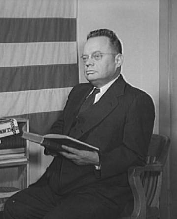 Maury Maverick - Cropped This image is available from the United States Library of Congress's Prints and Photographs division under the digital ID fsa.8b04738.This tag does not indicate the copyright status of the attached work. A normal copyright tag is still required. See Commons:Licensing for more information. .